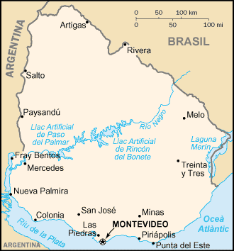 Map of Uruguai with names in Catalan